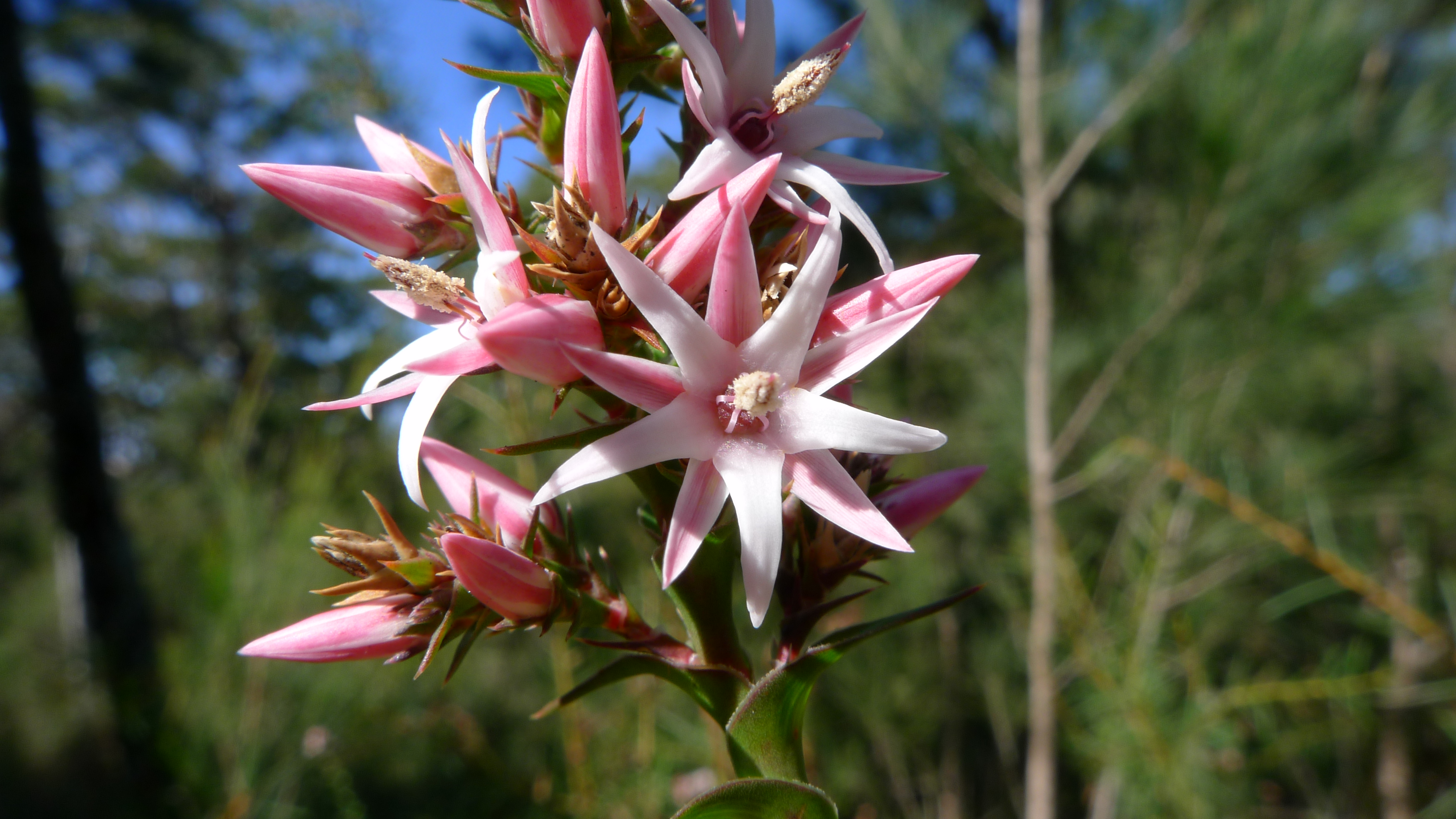 Pink Swamp Heath, Sprengelia incarnata. Royal National Park, NSW Australia, August 2011.